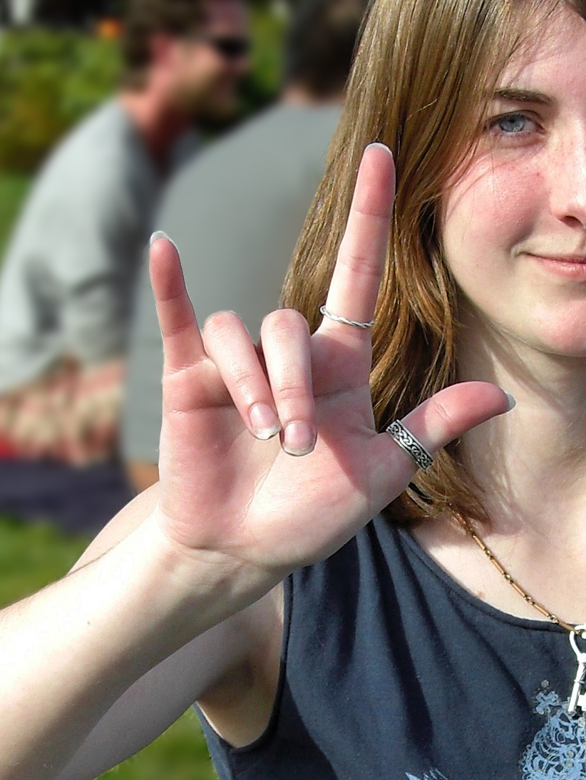 ASL sign I-LOVE-YOU (ILY@Side-PalmForward)